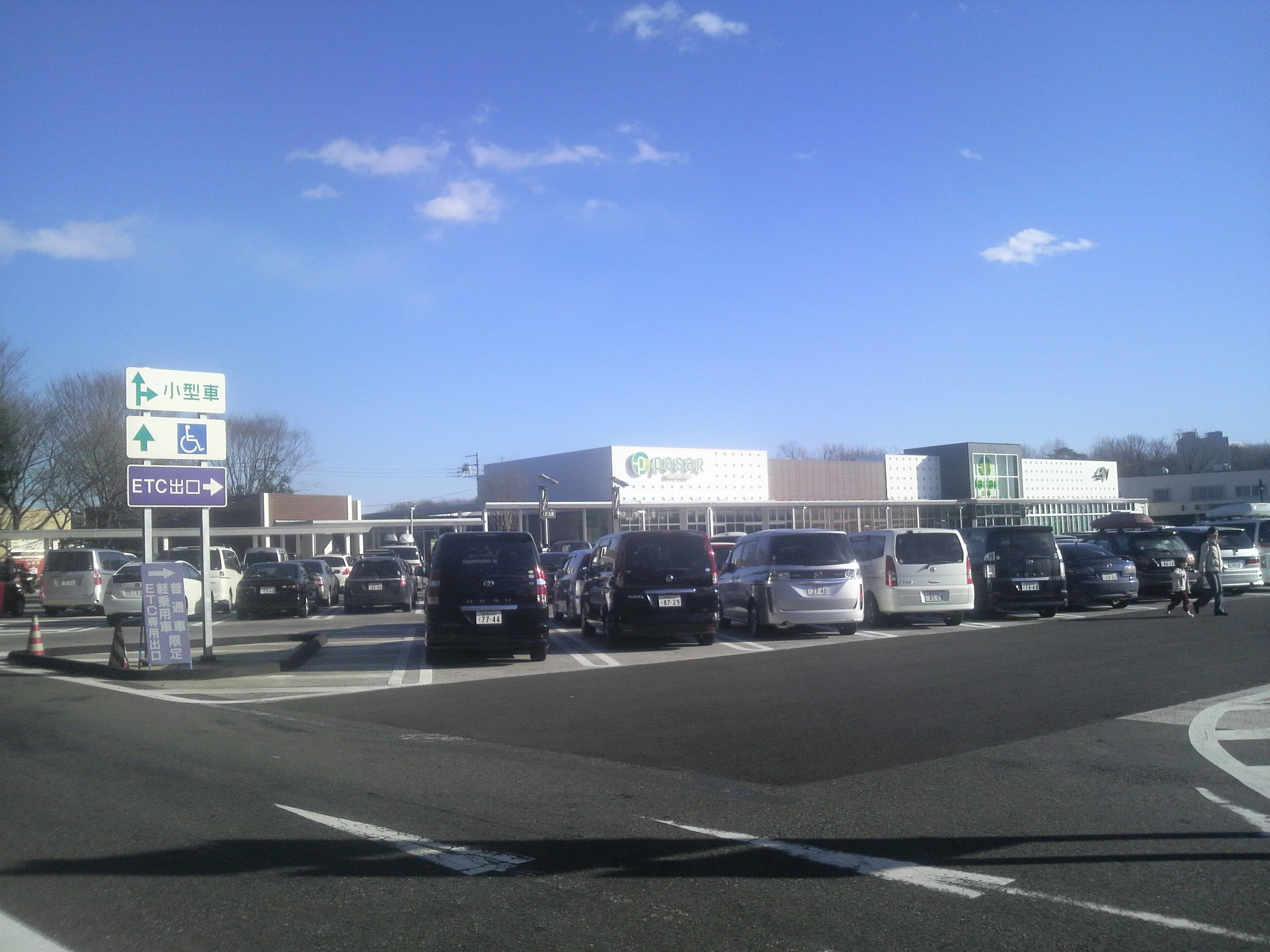 Miyoshi parking area, Kan-etsu exp way.